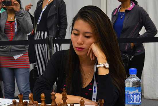 Juliana Terao